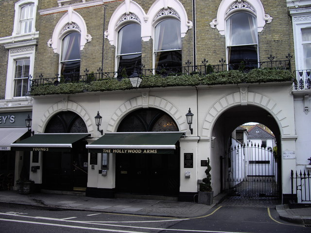 The Hollywood Arms The archway on the right is 'Hollywood Mews'